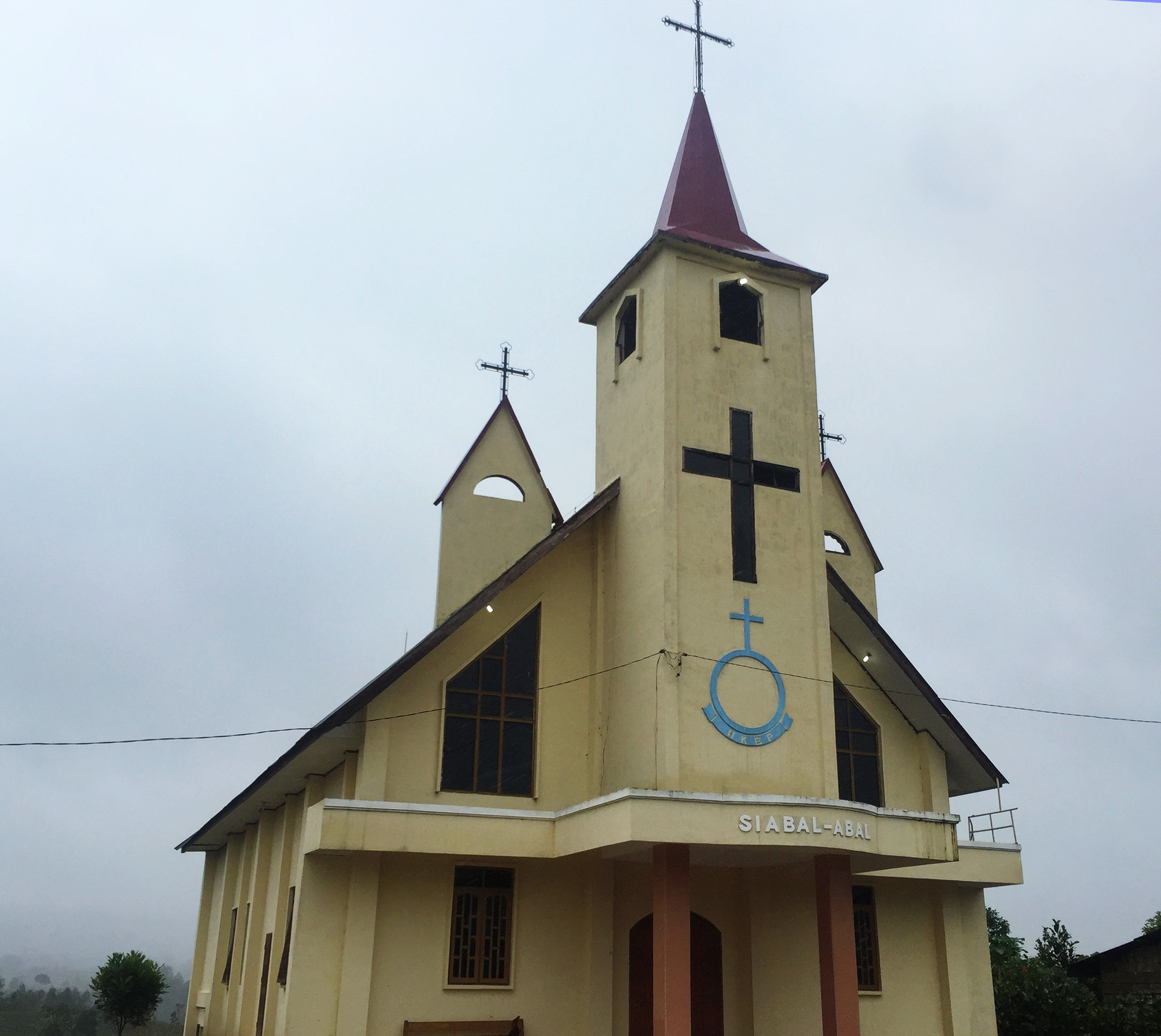 HKBP Siabalabal, Church in Siabalabal, Sipahutar, North Tapanuli